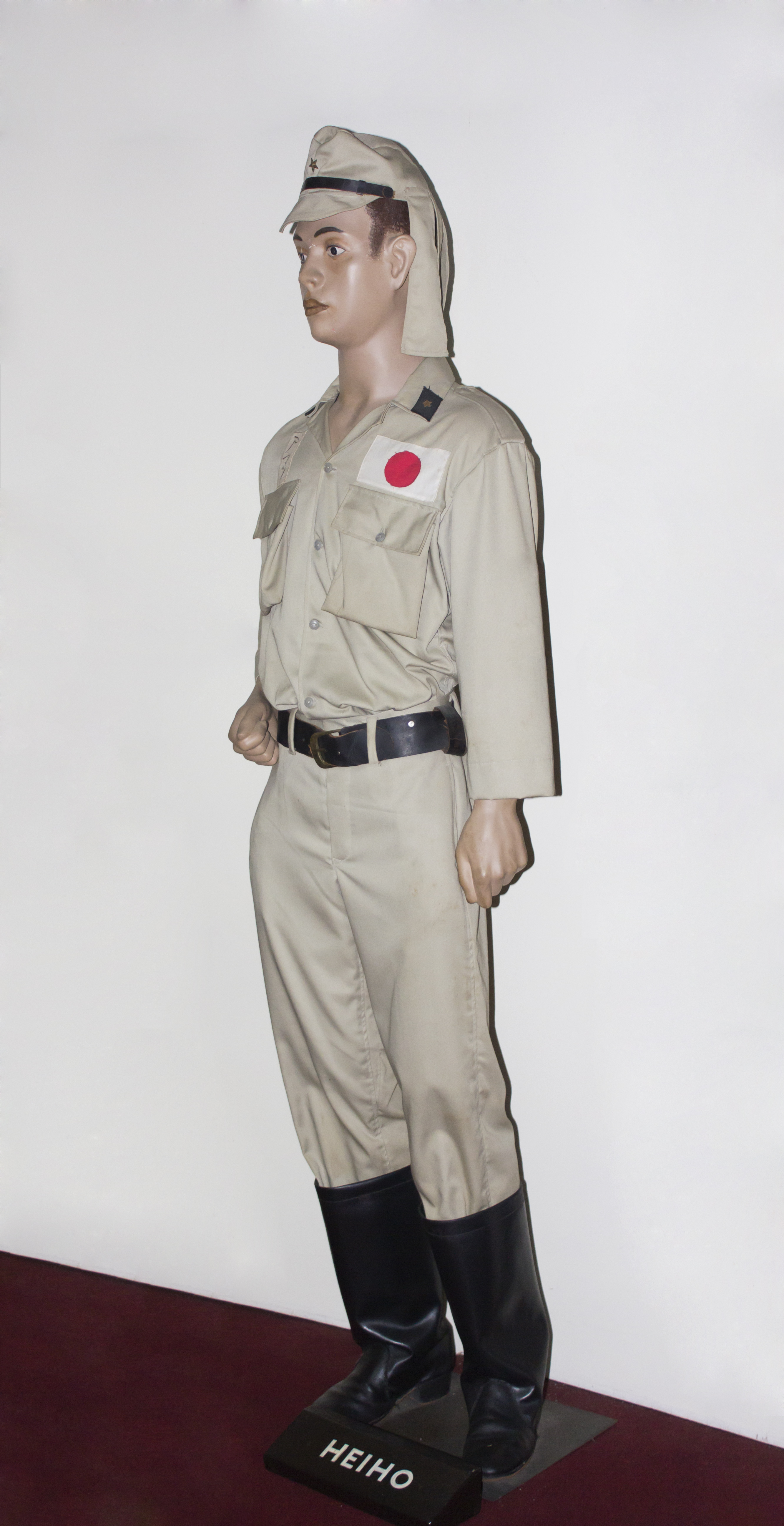 Heiho uniform on mannequin, Monumen Jogja Kembali